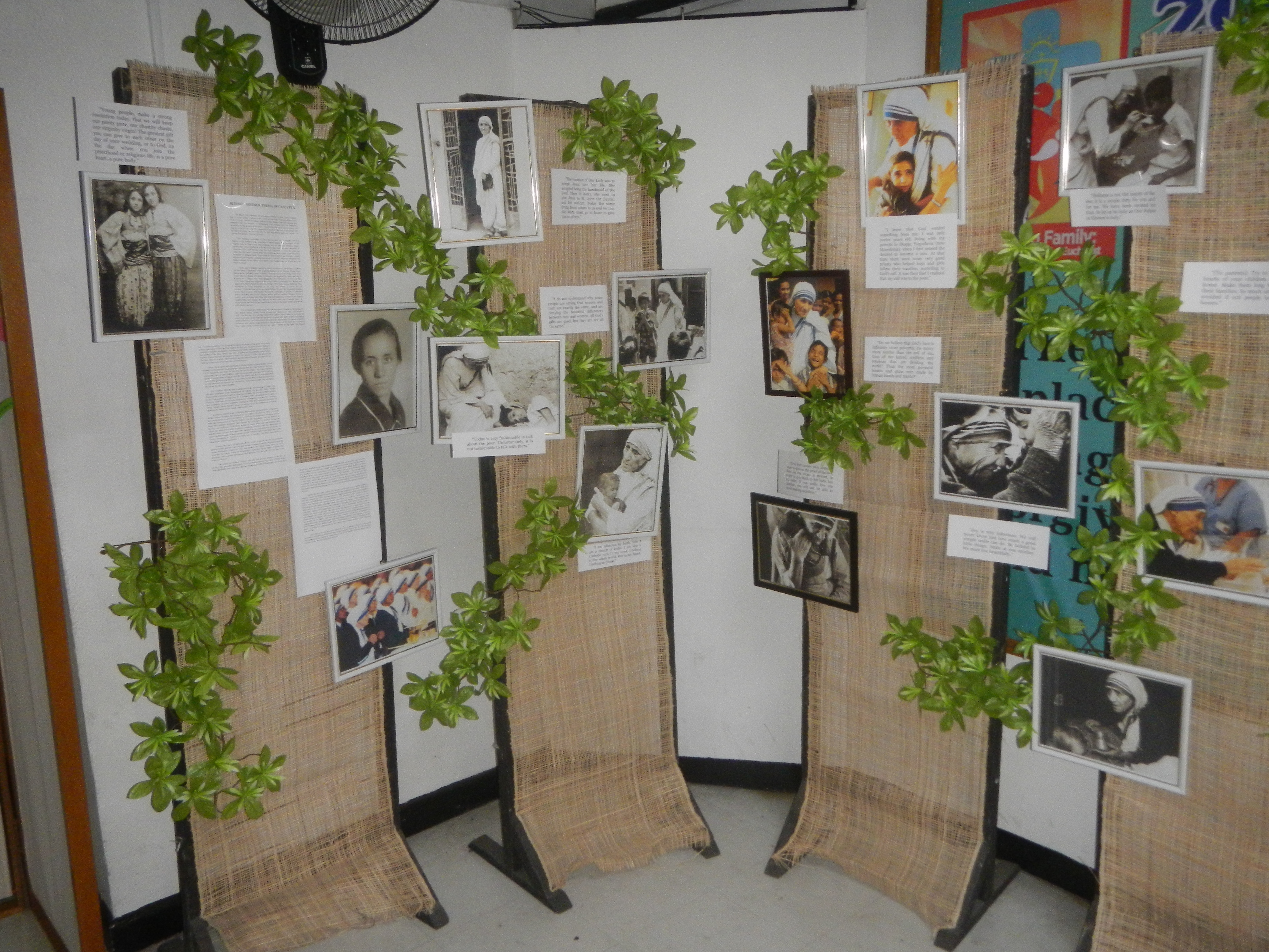 Mother Teresa Mother Teresa of Calcutta Exhibit (Radio Veritas, Quezon City) Radio Veritas Saint Teresa of Calcutta (born Anjezë Gonxhe Bojaxhiu) Radio Veritas 846, Our Lady of Veritas Chapel, Global Broadcasting Systems, Inc., in West North Footbrige (West Avenue corner North Avenue, EDSA, Quezon City) (Note: Judge Florentino Floro, the owner, to repeat, Donor Florentino Floro of all these photos hereby donate gratuitously, freely and unconditionally all these photos to and for Wikimedia Commons, exclusively, for public use of the public domain, and again without any condition whatsoever).